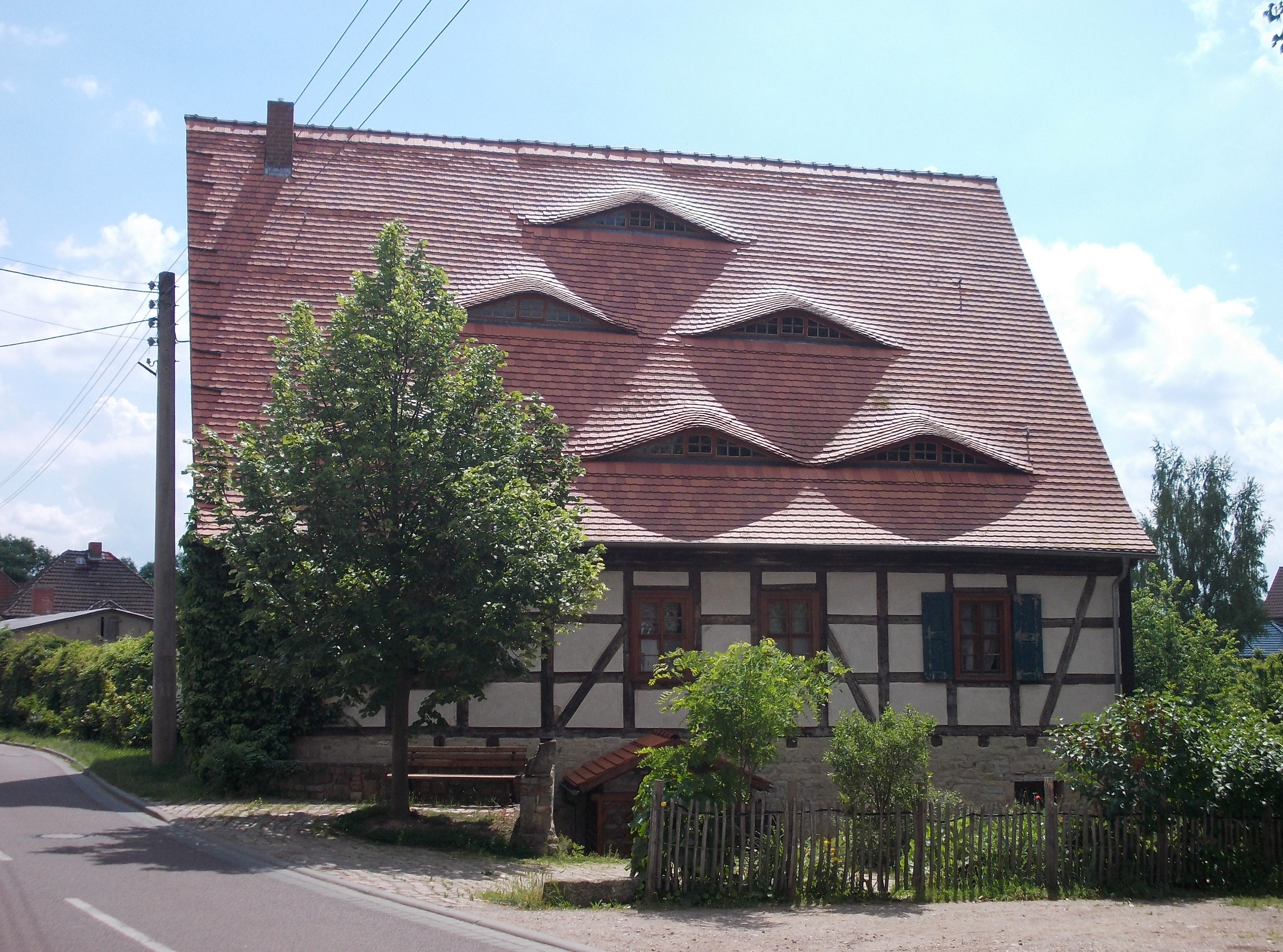 Zappendorf watermill (Salzatal, district: Saalekreis, Saxony-Anhalt)